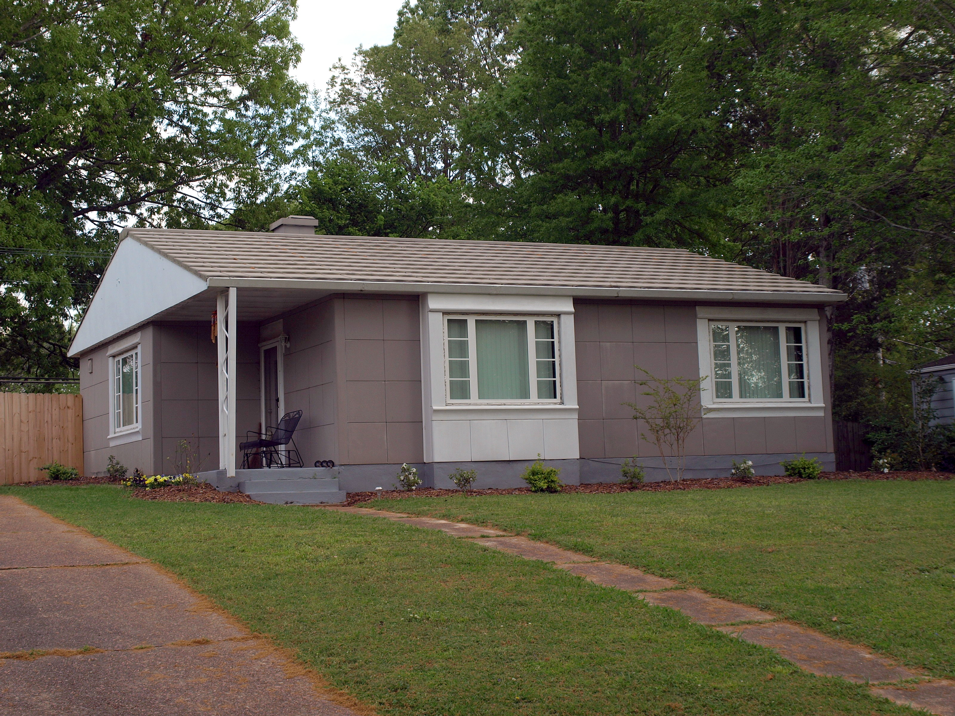 The E. H. Darby Lustron House in Florence, Alabama, listed on the National Register of Historic Places.